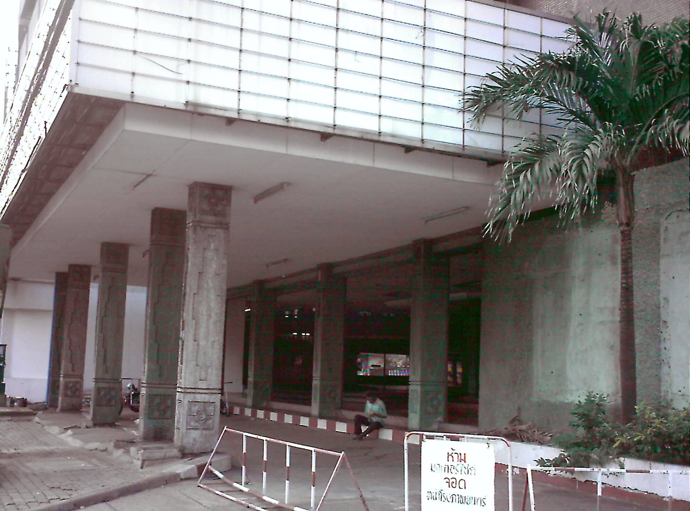 Main Gate, Rama Theatre Building, Rama 4 Road, Bangkok, Thailand 中文（香港）: 泰國，曼谷，拍喃四路，拉瑪戲院的大門。